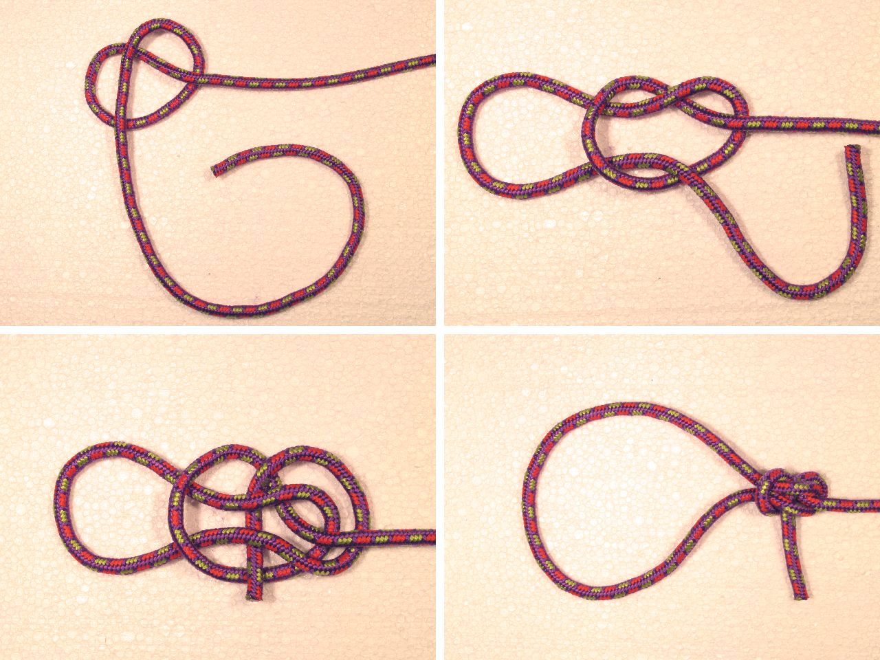 How to make an Angler's Loop.